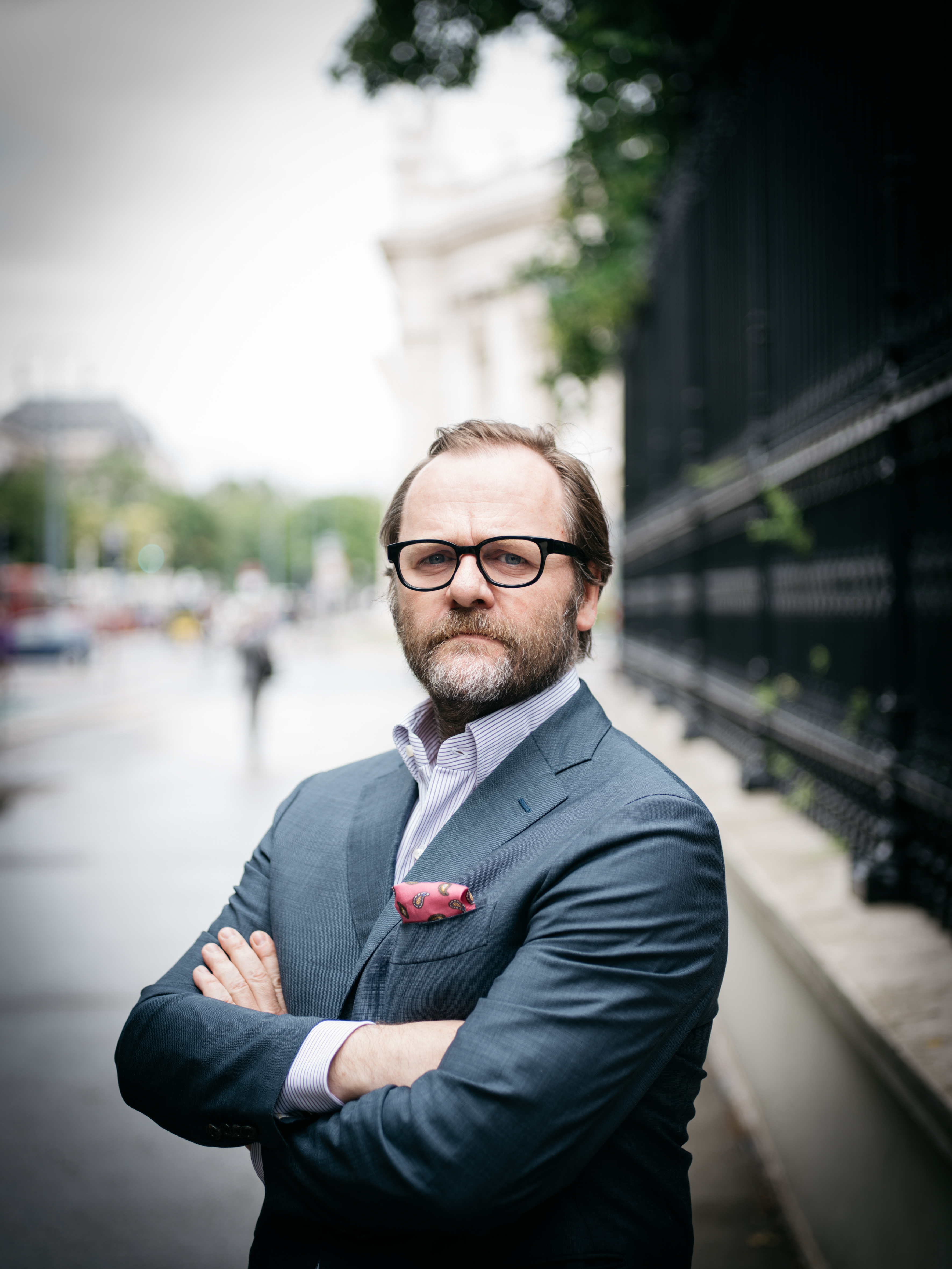 Sepp Schellhorn is a Member of the Austrian National Council.